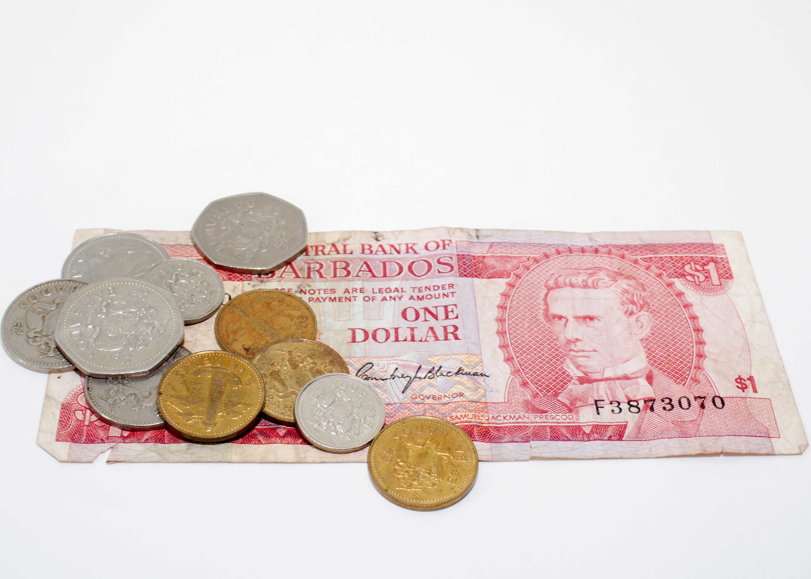 Image of Barbadian money including a paper dollar and silver dollar, five cents, ten cents and a quarter on a while background